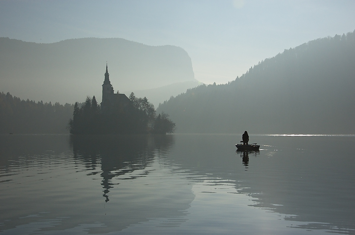 Caronte a Bled